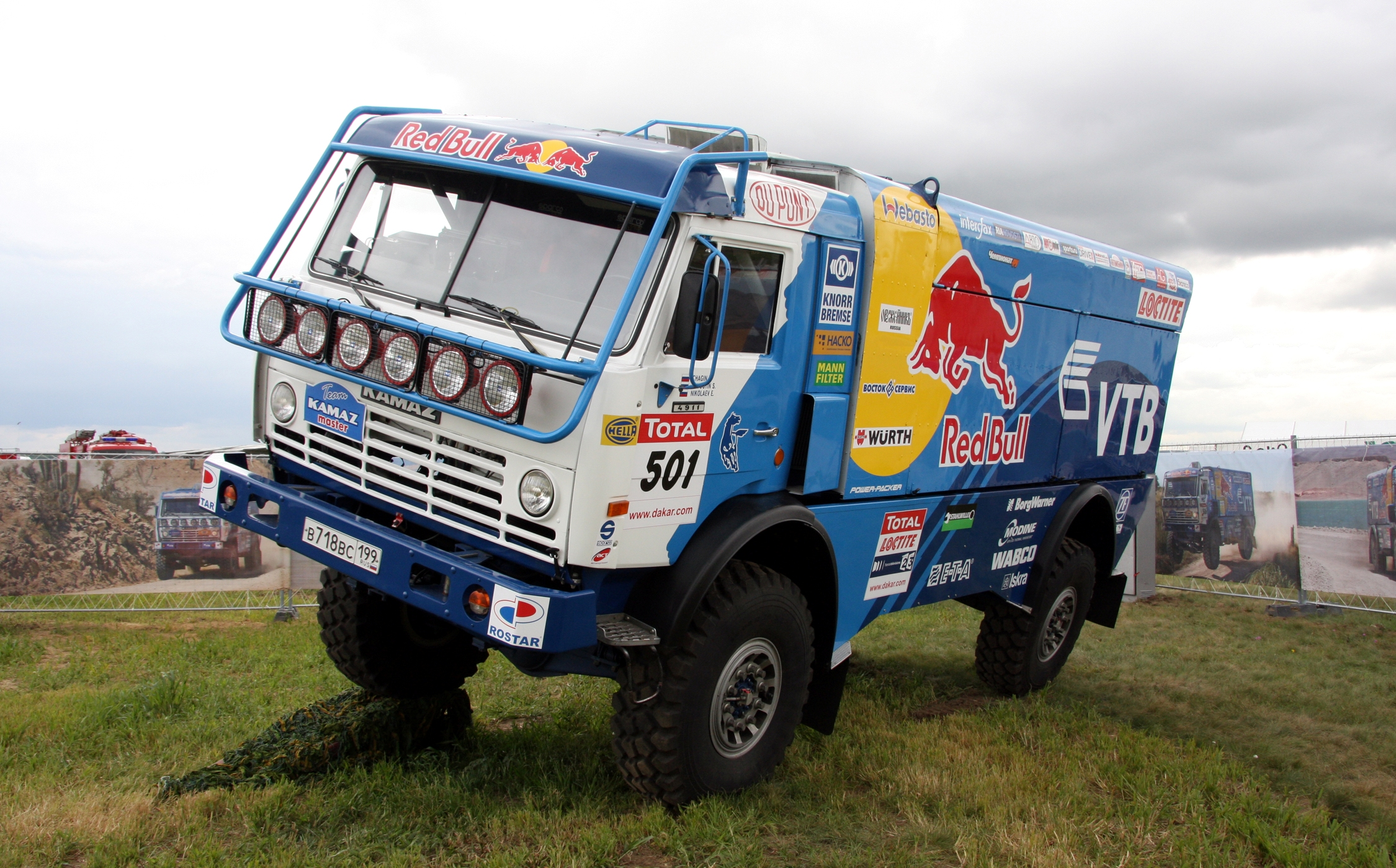 KAMAZ-4911 racing truck at 2009 MAKS Airshow in Russia.